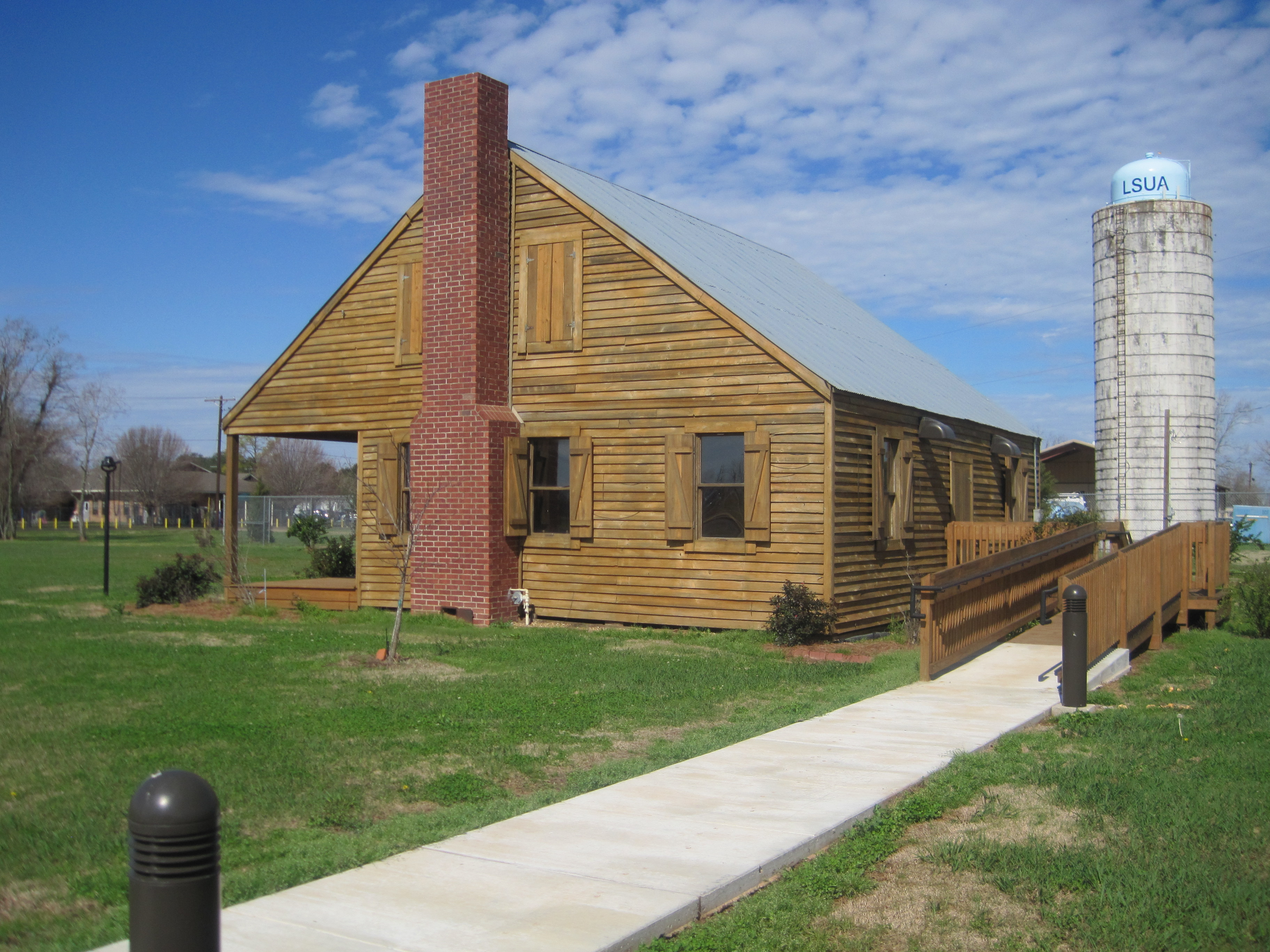 Restored Epps plantation home where Solomon Northup, author of Twelve Years a Slave, lived. Now located on the LSUA campus. Taken February 2012.